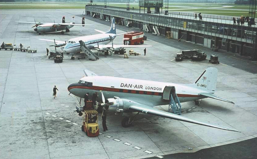 Manchester Airport Pier B of the 1962 terminal with a Dan-Air Dakota, KLM Viscount and Dan-Air Ambassador